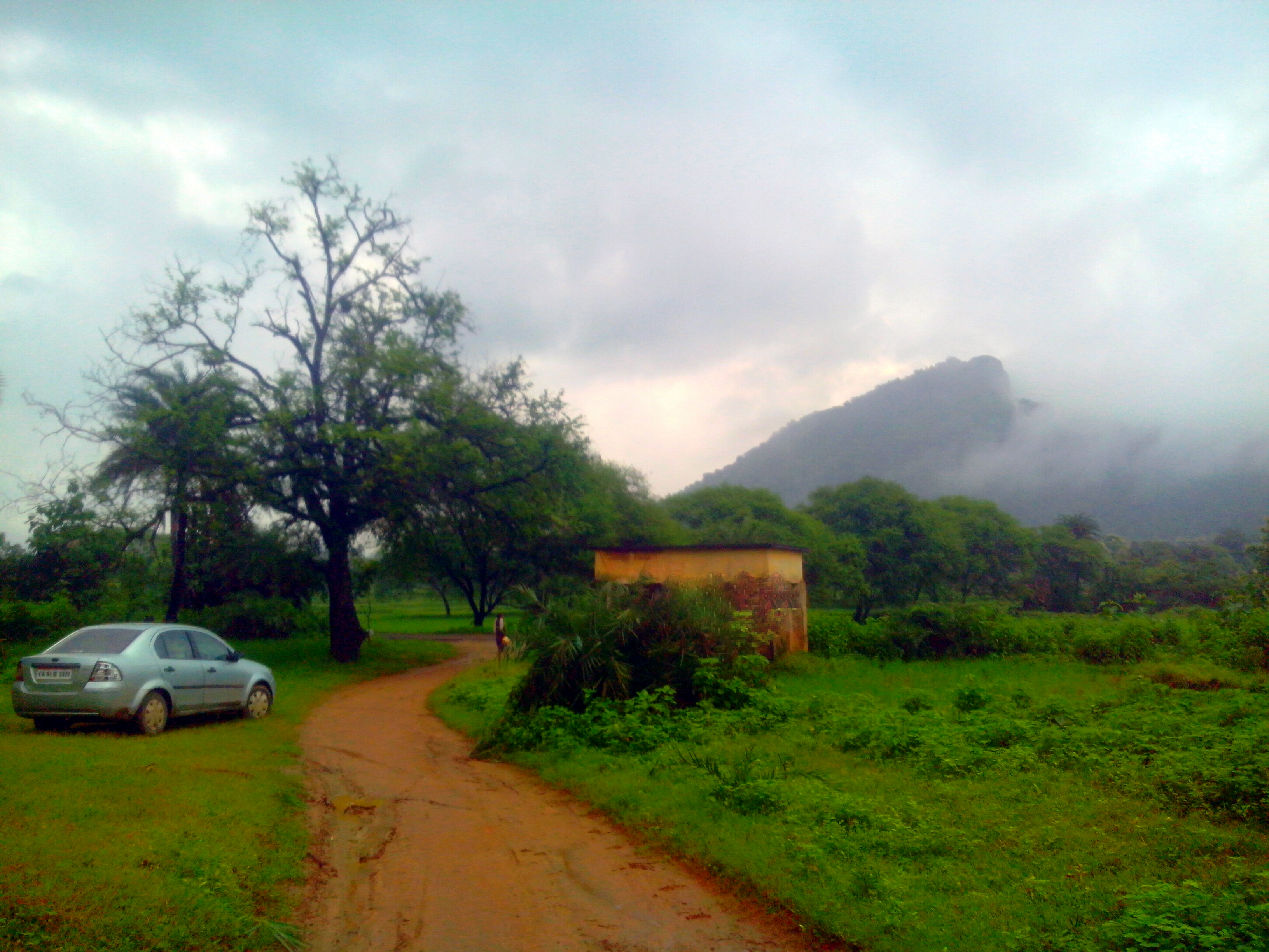 Bus Stand